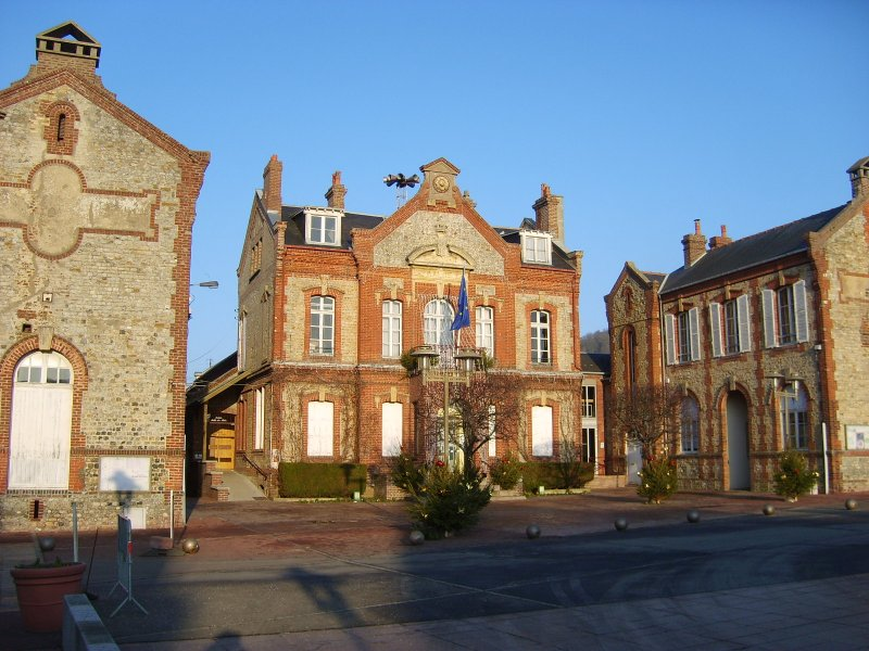 Houlgate town hall, Houlgate, new year 2009.